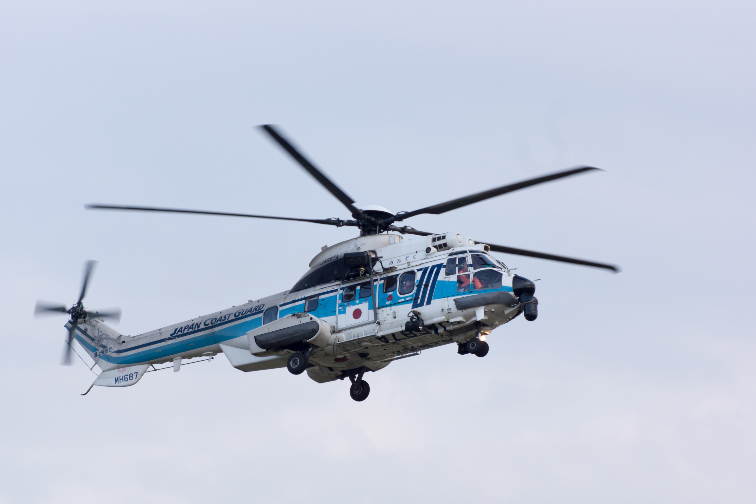 Japan Coast Guard Eurocopter EC225 Super Puma Mk II+